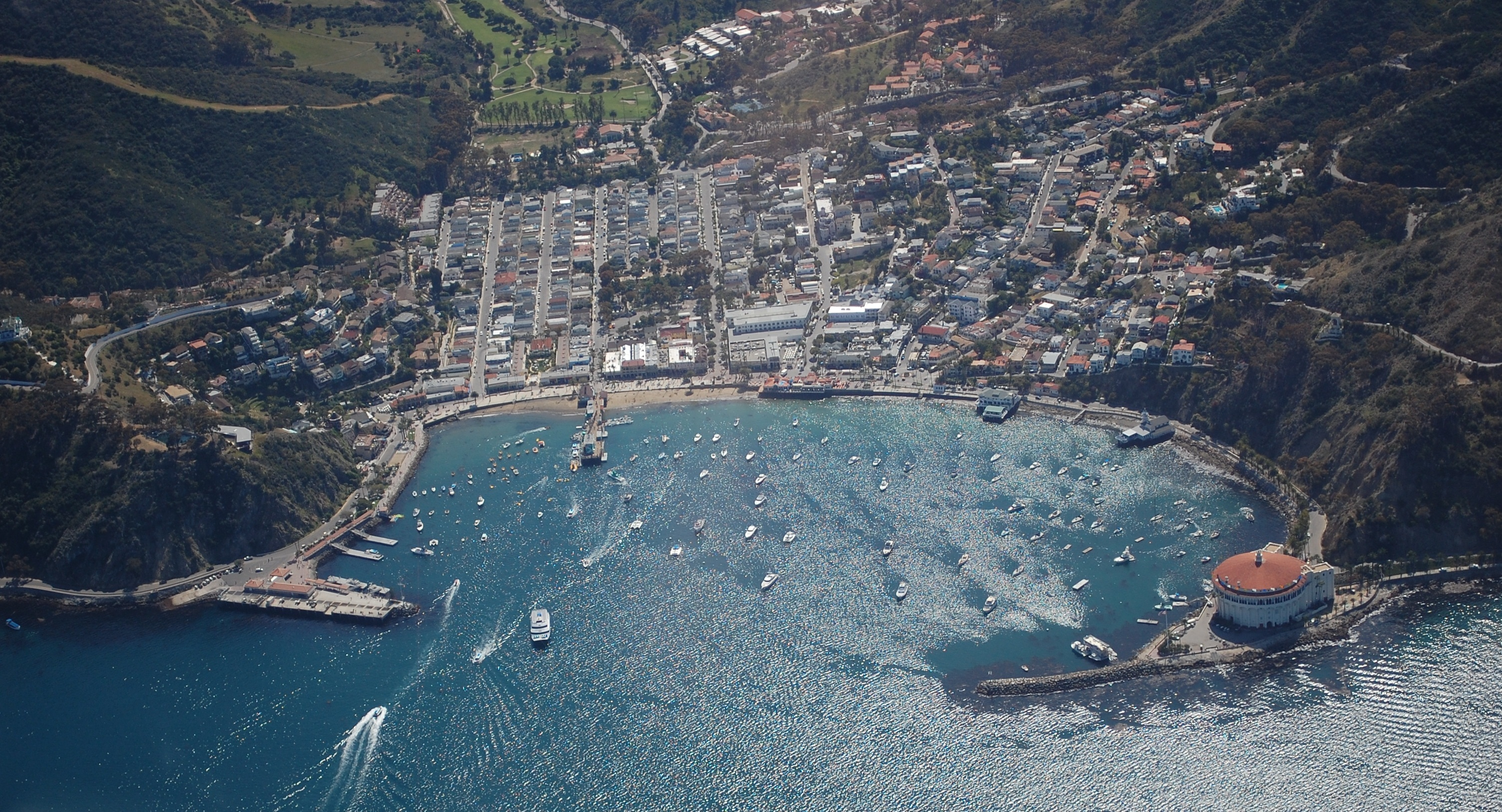 The town of Avalon, California and its bay are seen from the sky.